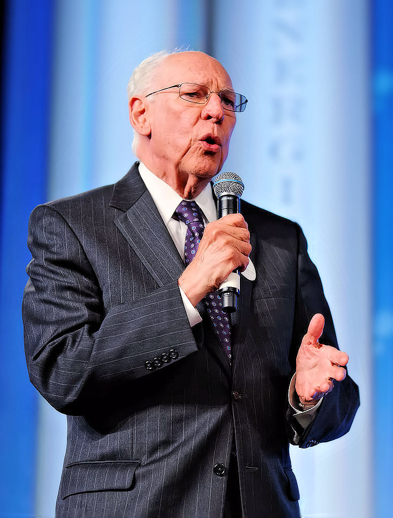 at the Southern Republican Leadership Conference, Oklahoma City, 1 OK May 2015; taken by Michael Vadon; adjustments made as allowed by Creative Commons Attribution-ShareAlike 4.0 International (CC BY-SA 4.0) licensing.